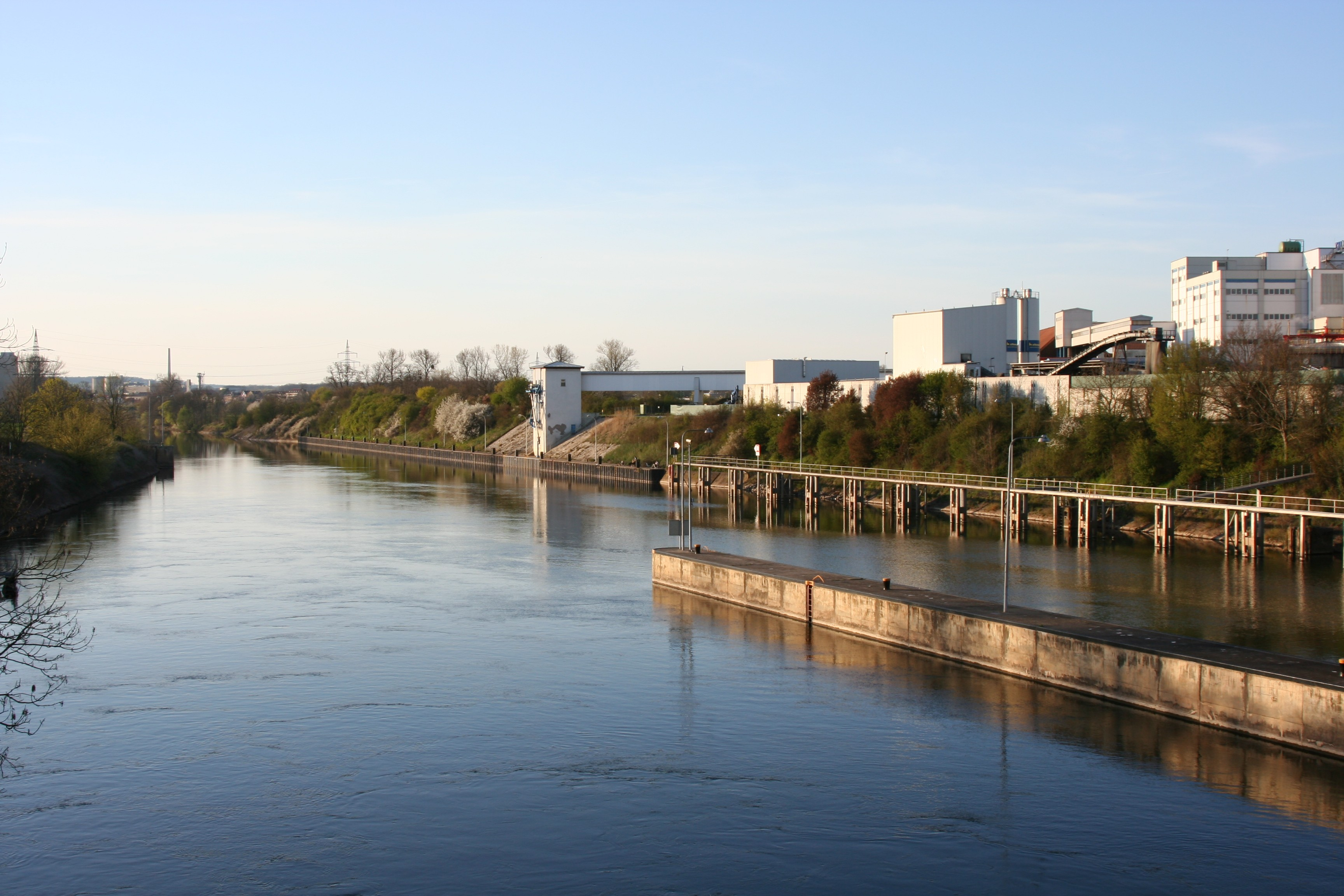 The Neckar canal downstream from the Kochendorf lock in Bad Friedrichshall